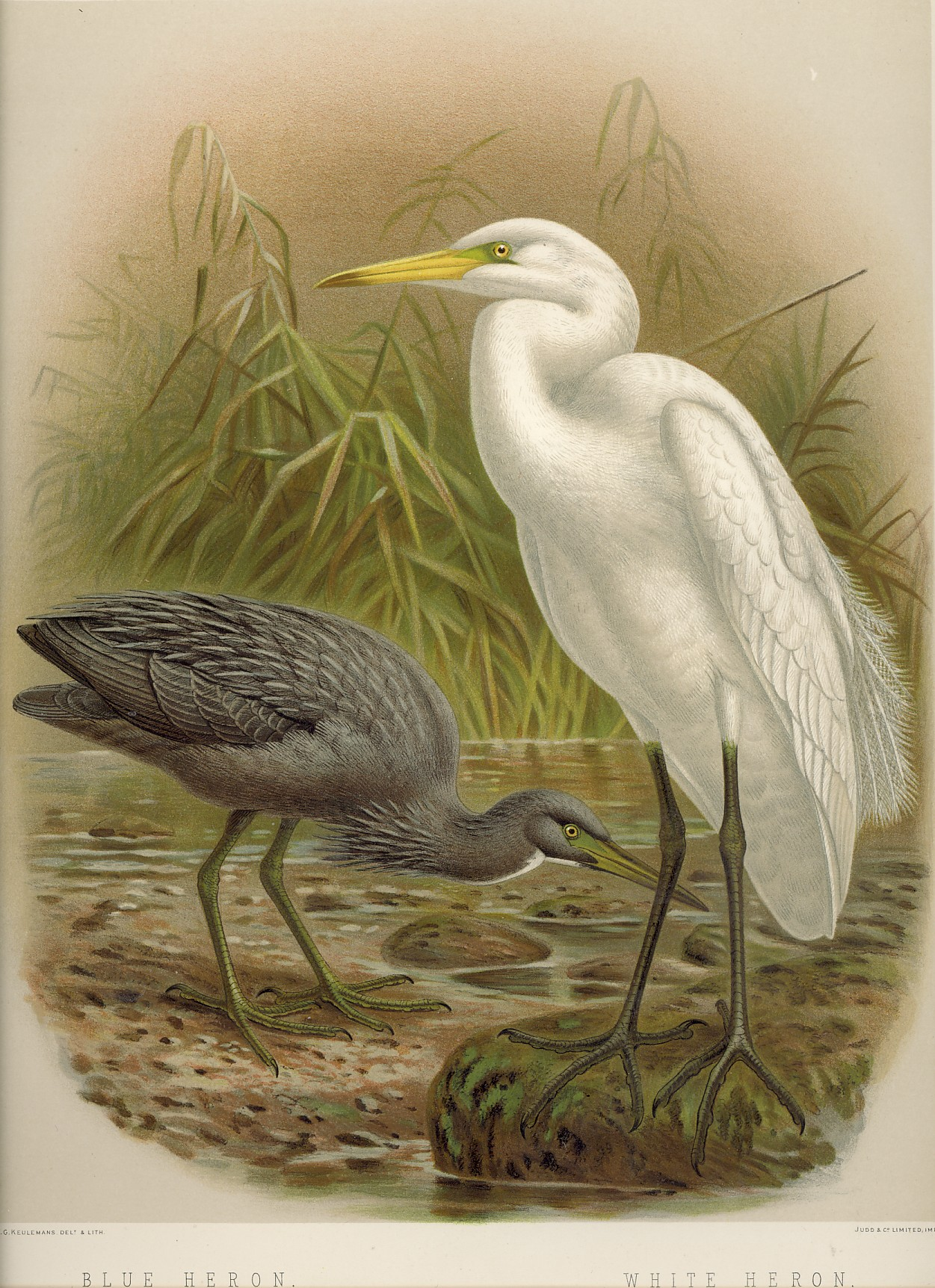 "Blue Heron Ardea sacra. White Heron Ardea modesta" Dark-grey reef heron/matuku moana (Egretta sacra) and White Heron/Kōtuku (Ardea modesta).